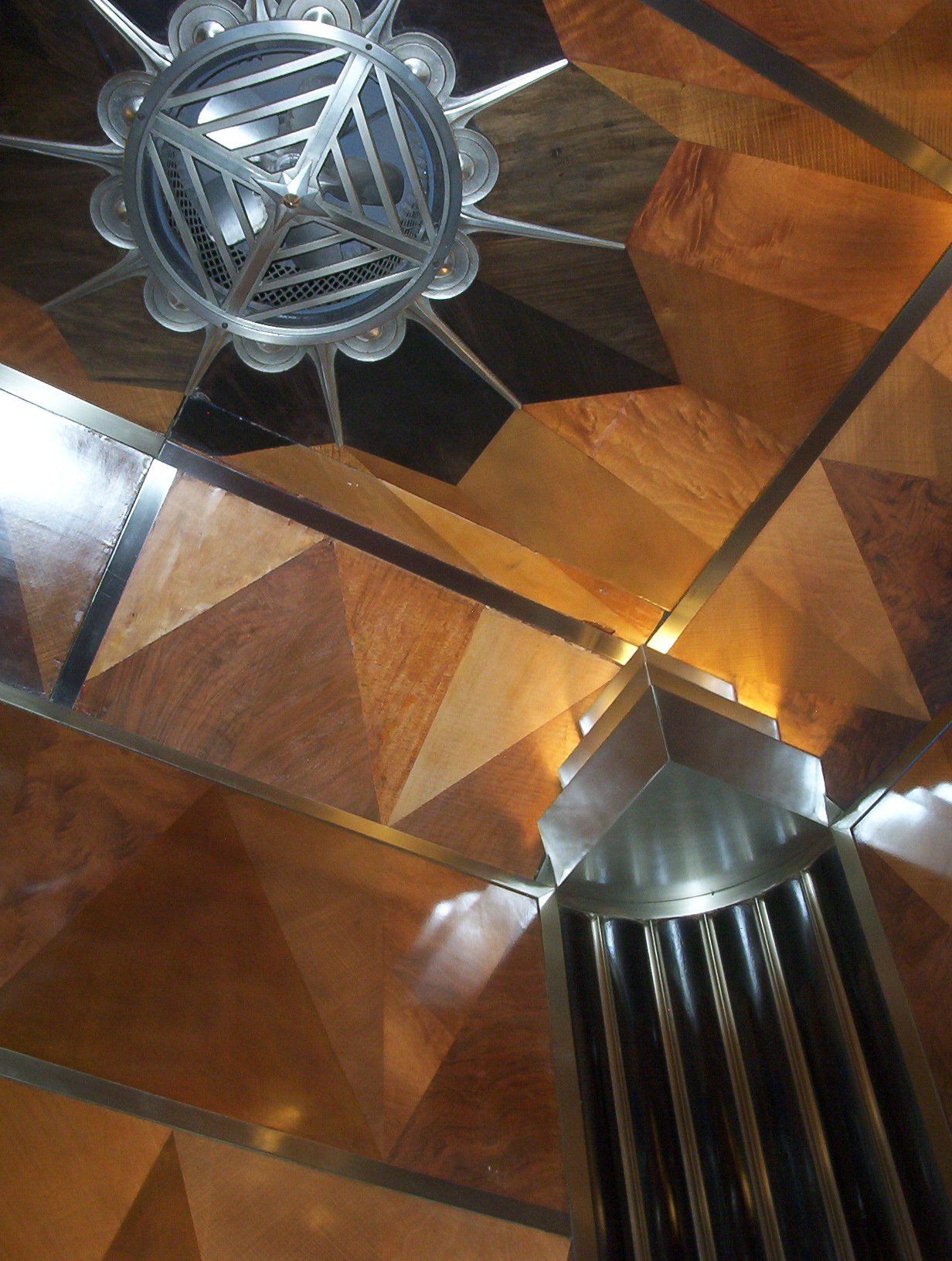 Stainless steel grill and light fixture amid several colors of wood paneling inside an Art Deco elevator at the Chrysler Building, New York City.